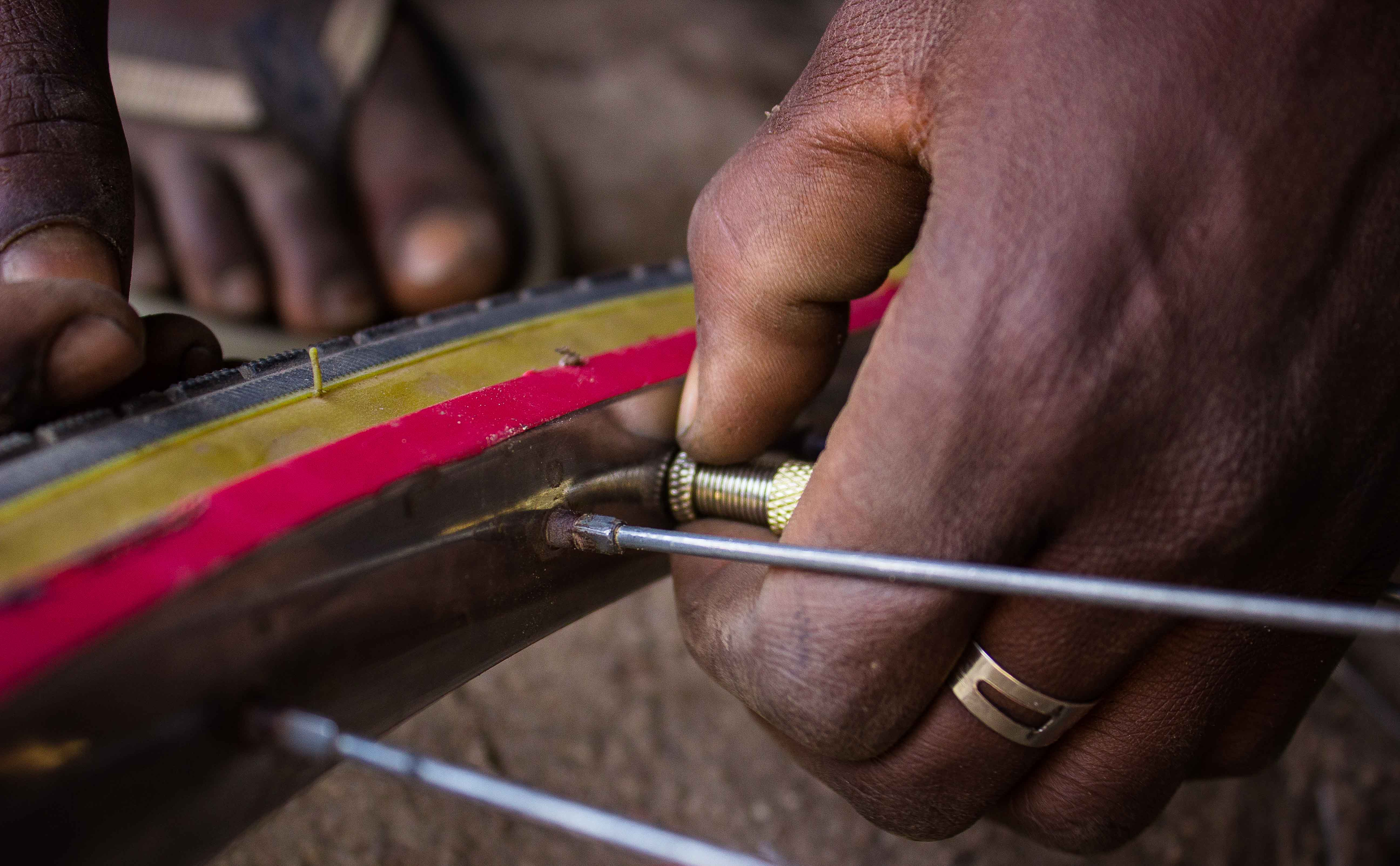 Bicycle repairer, adjusting a damaged valve. This is an image of "African people at work" from Nigeria